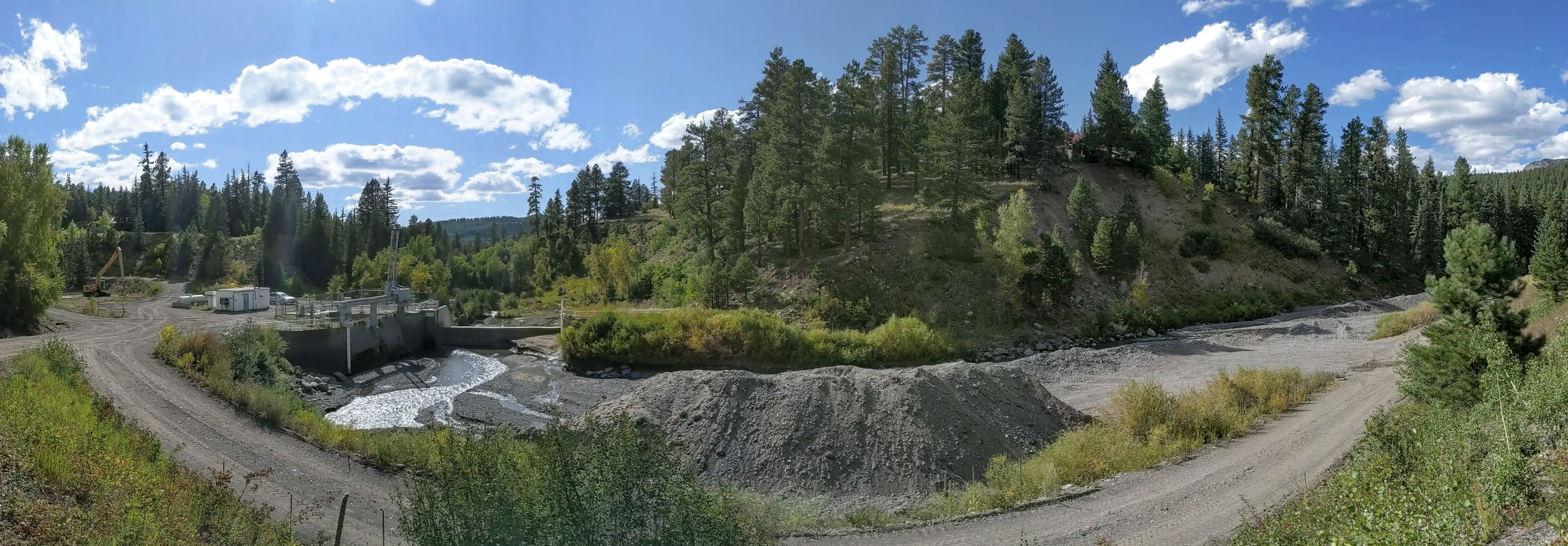 Panoramic view from above the Blanco Diversion Dam of the San Juan–Chama Project, on the Rio Blanco (Colorado)